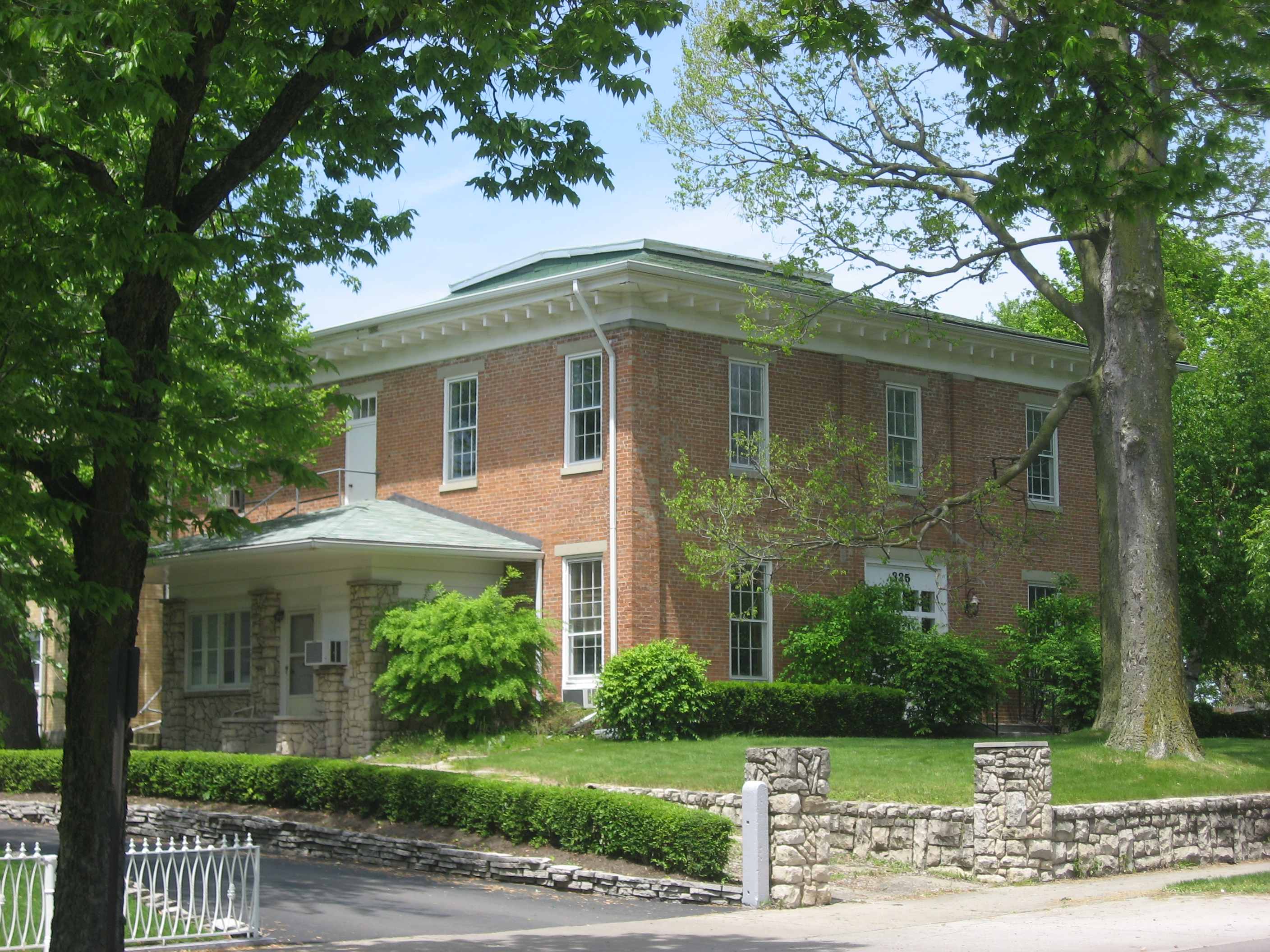 Front and southern side of the William Lawrence House at 325 N. Main Street (U.S. Route 68) in Bellefontaine, Ohio, United States. Built in 1860 for William Lawrence, it is now occupied by lawyers' offices, and it is listed on the National Register of Historic Places.